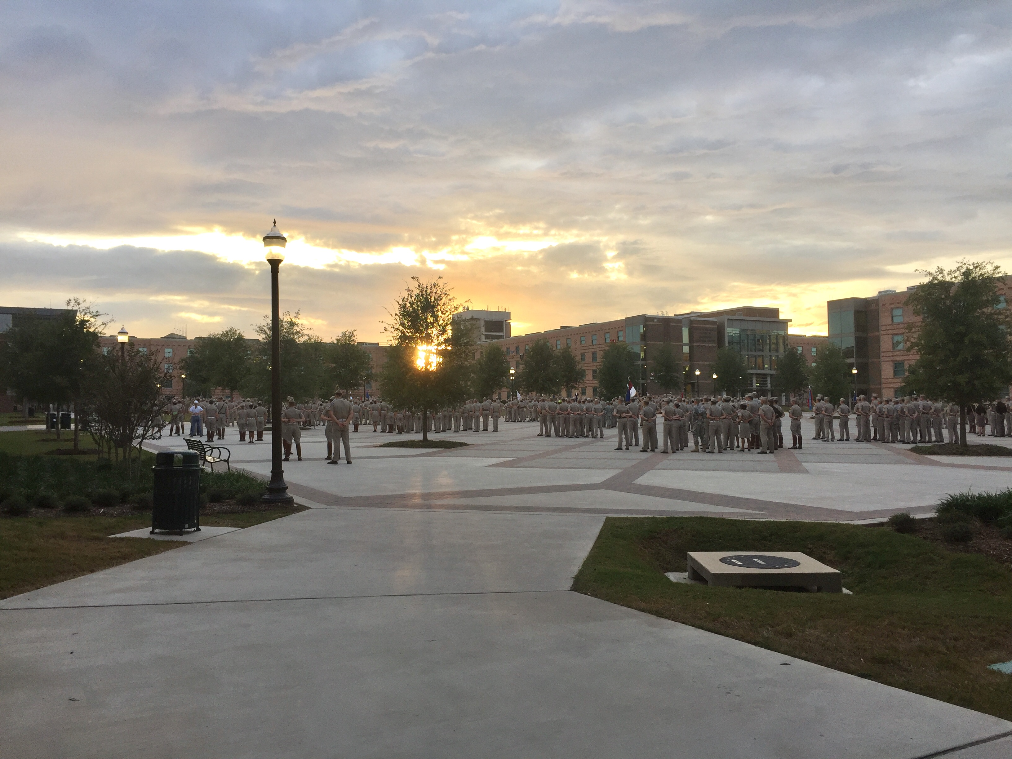 Texas A&M Corps of Cadets holds evening formation (Supper Roll Call), October 2017